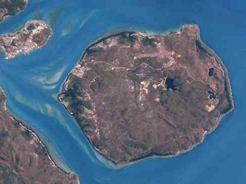 Horn Island, Inner Group of Torres Strait Islands, Queensland, Australia. Northwest shows Thursday Island, southwest a piece from Prince-of-Wales-Island.